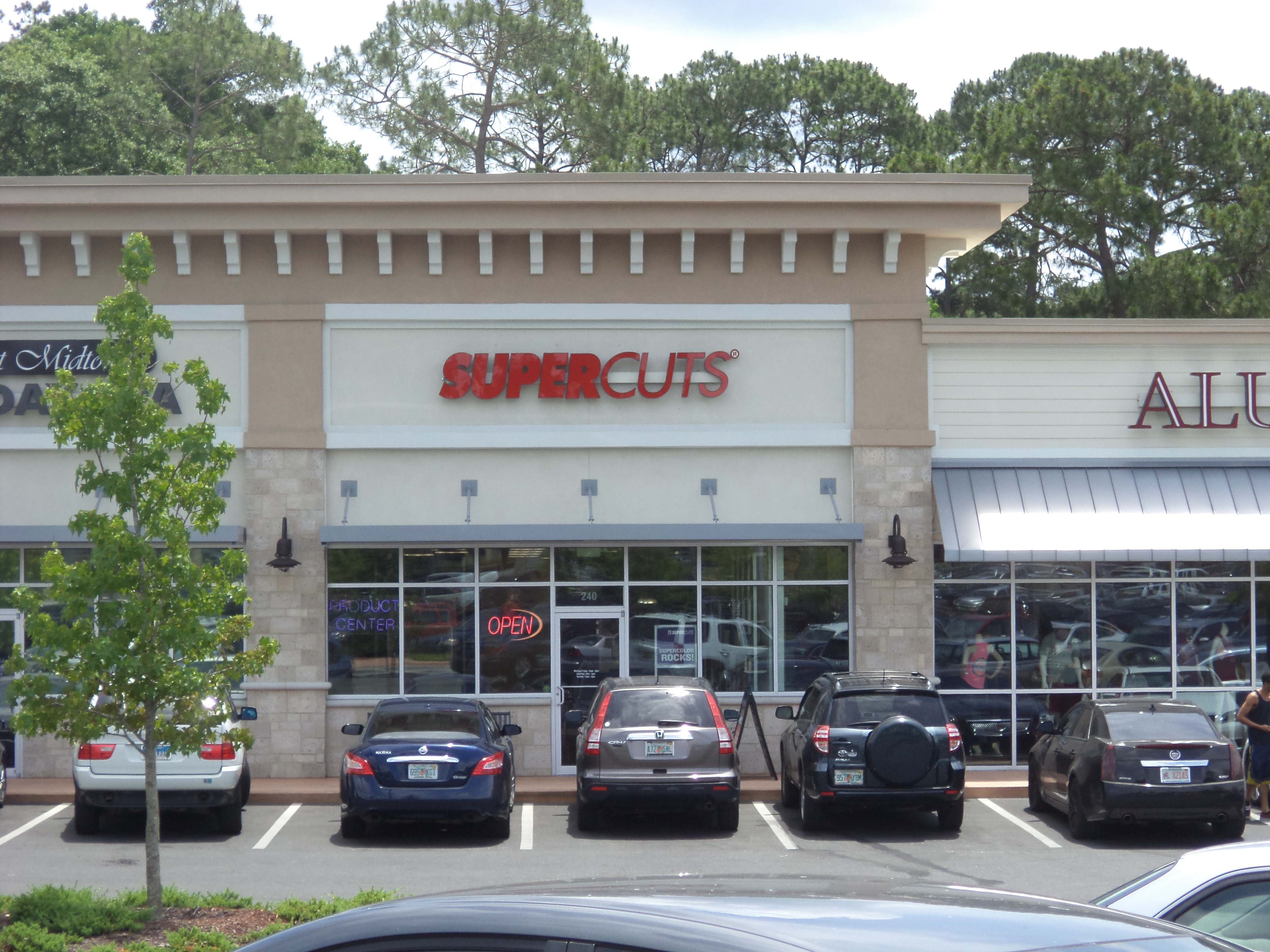 Supercuts, Miracle Plaza, 1817 Thomasville Road, Tallahassee, Leon County, Florida